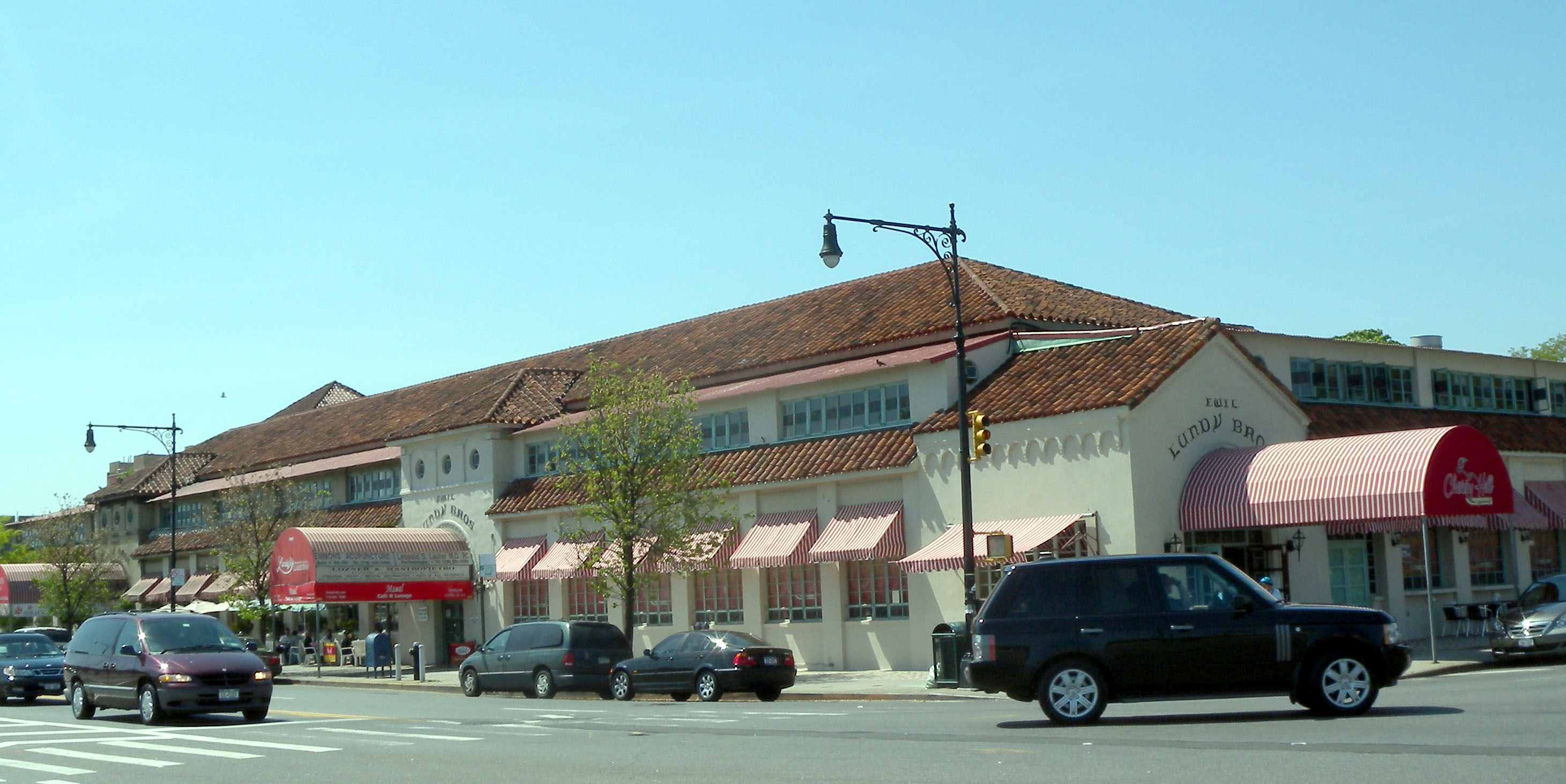 Looking northwest across Emmons Avenue at Lundy's Restaurant on a sunny midday. See also File:Lundys far jeh.jpg